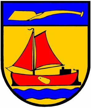 Coat of Arms of Ostrhauderfehn. Unter blauem Schildhaupt, darin ein goldener Moorspaten (Jager), in Gold ein rotes einmastiges Schiff mit roten Segeln, schwarzem Steuer und schwarzen Aufbauten über gesenktem blauen Wellenbalken. First upload in de-wp: TBB007 (13:56, 27. Okt. 2005)